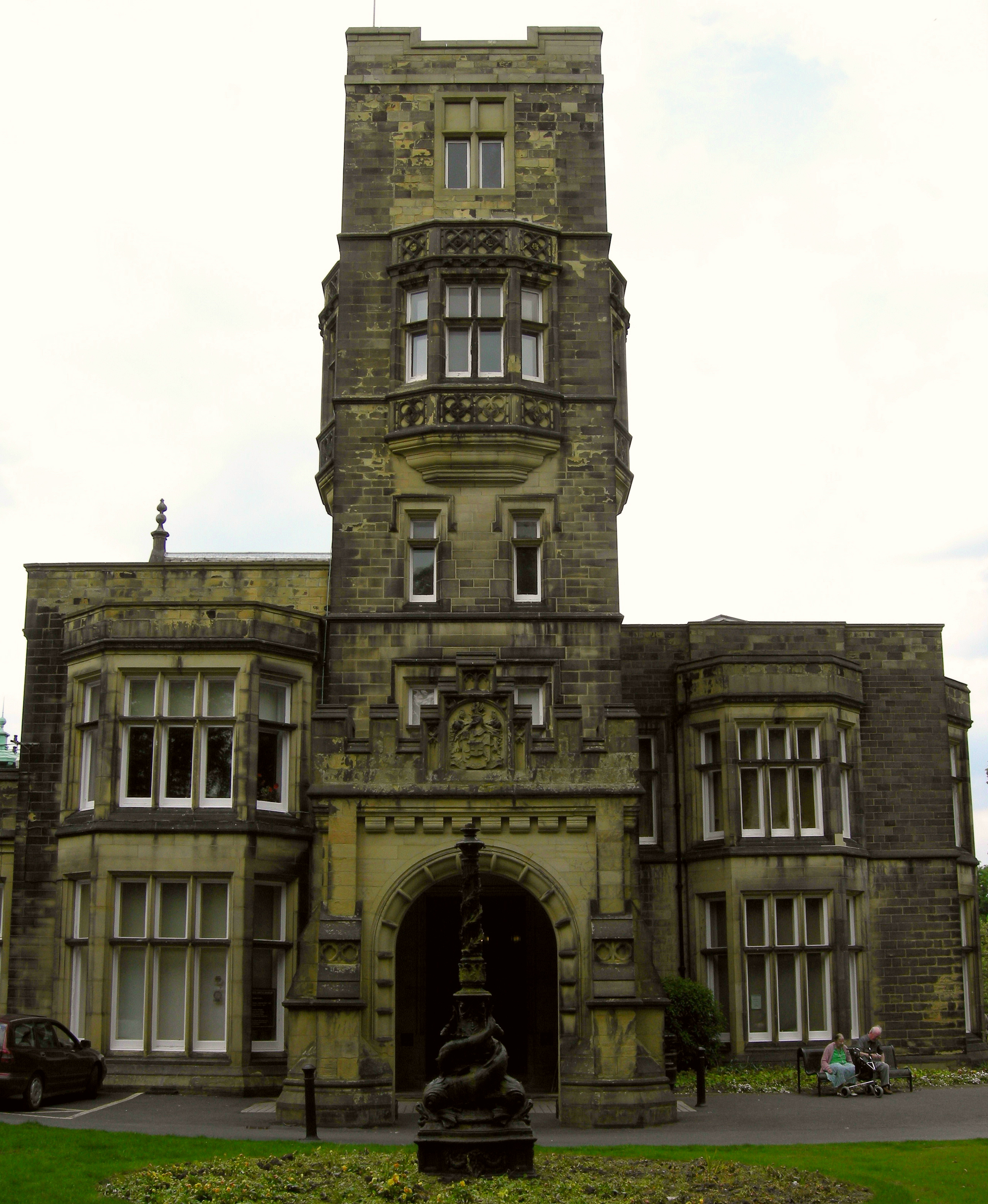 Cliffe Castle Museum, Keighley, West Yorkshire, England.